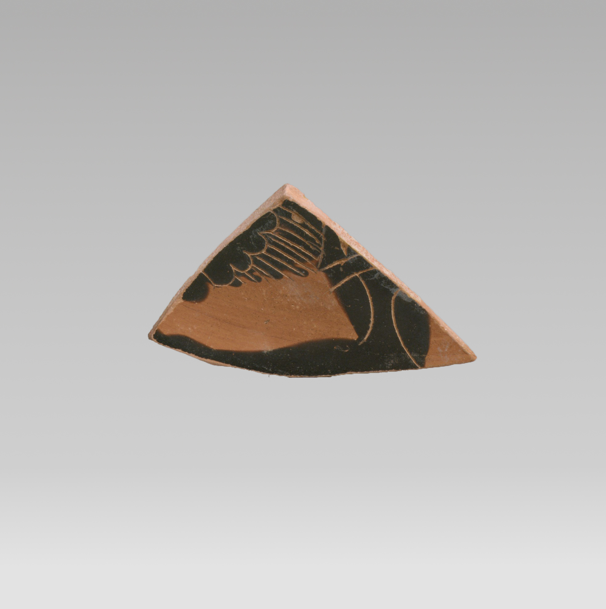 Greek, Attic; Kylix, band-cup fragment; Vases